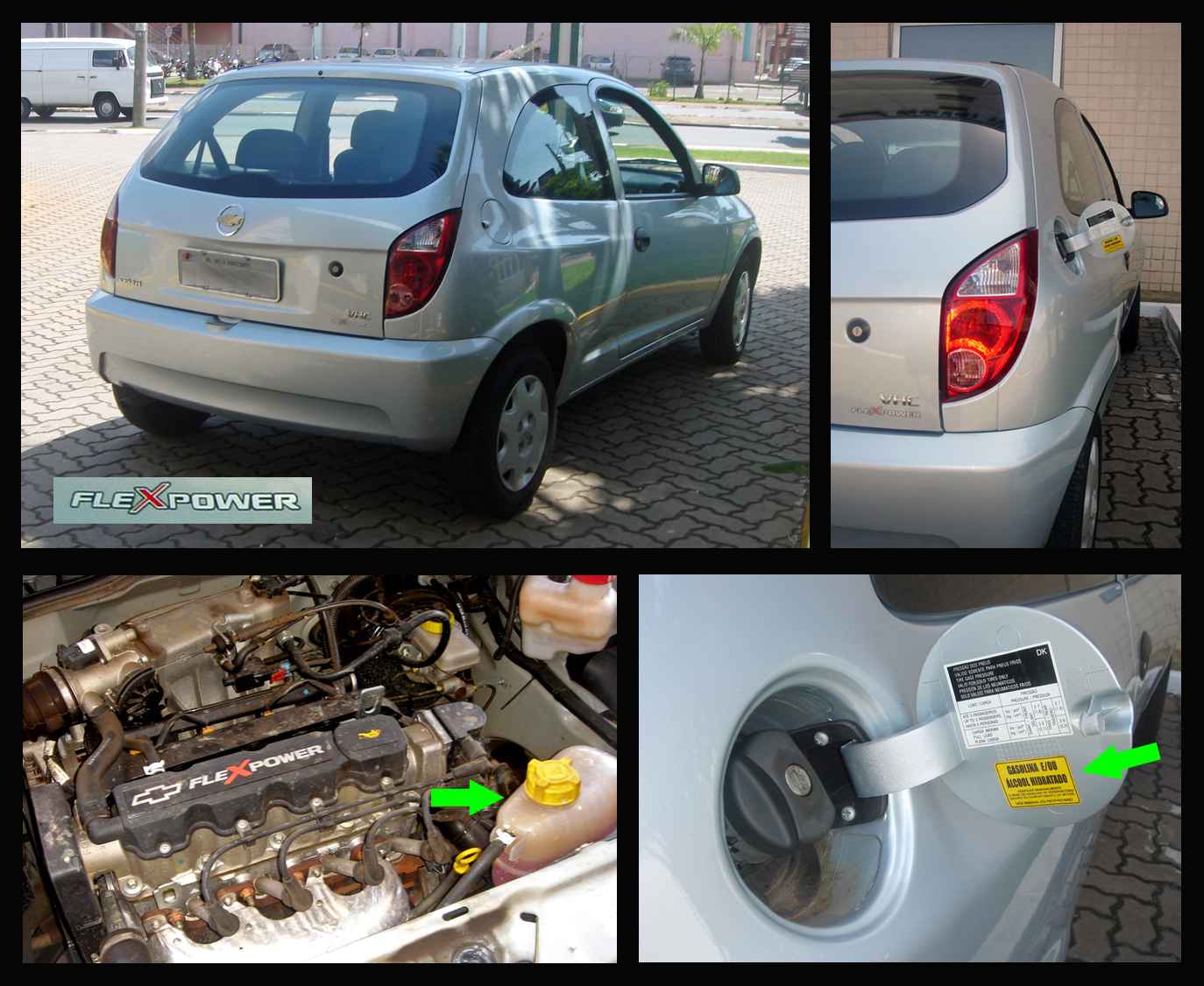 Brazilian Chevrolet Celta FlexPower showing flexible fuel badging, secondary tank for starting in cold temperatures and labeling in the back of the fuel filler door.